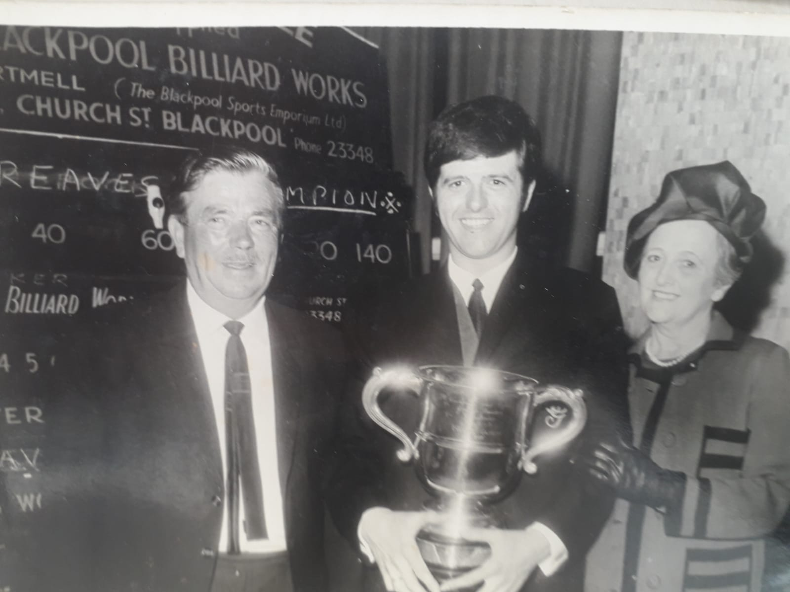 English Snooker player David Greaves is posing with his parents, after winning a Tournament in Blackpool.